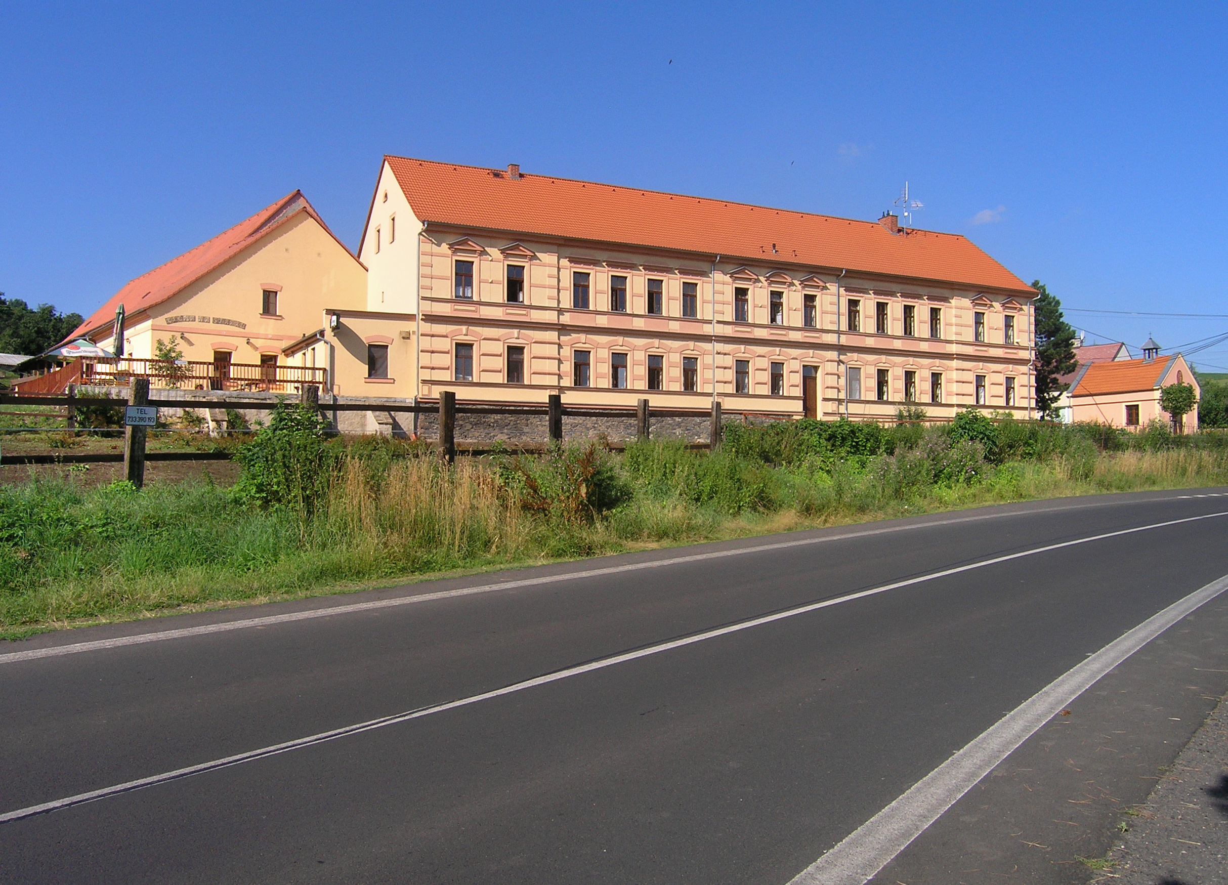 Úpořiny, part of Bystřany village, Czech Republic